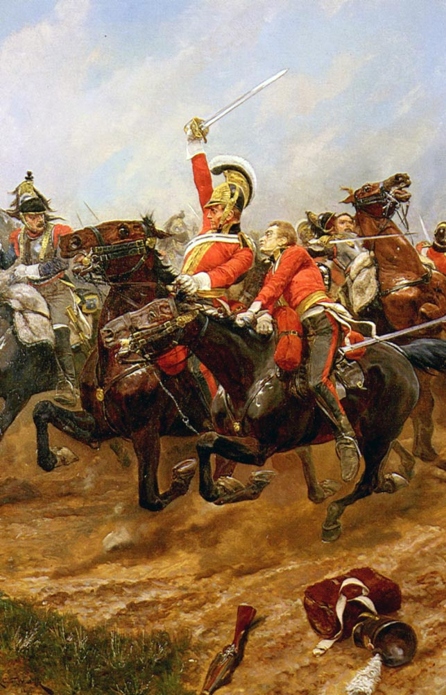 Life Guards Charging At The Battle Of Waterloo